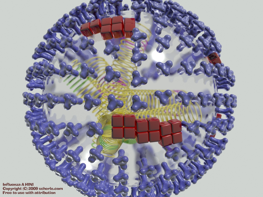 3D model of Influenza A H1N1 virus